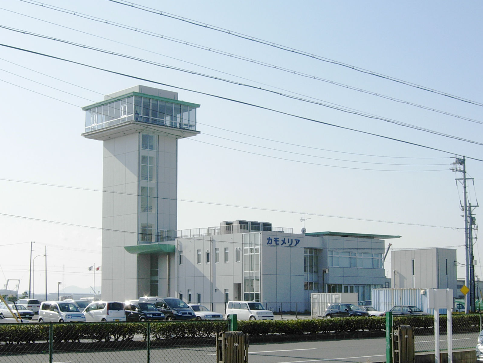 Kamomeria (カモメリア, observation tower at the port) in Toyohashi, Aichi, Japan.